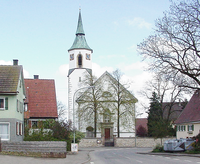 Historic Ostdorf, Balingen Evangelische Church (Lutheran). Built in 1832 to replace the previous church built in the 1500's.